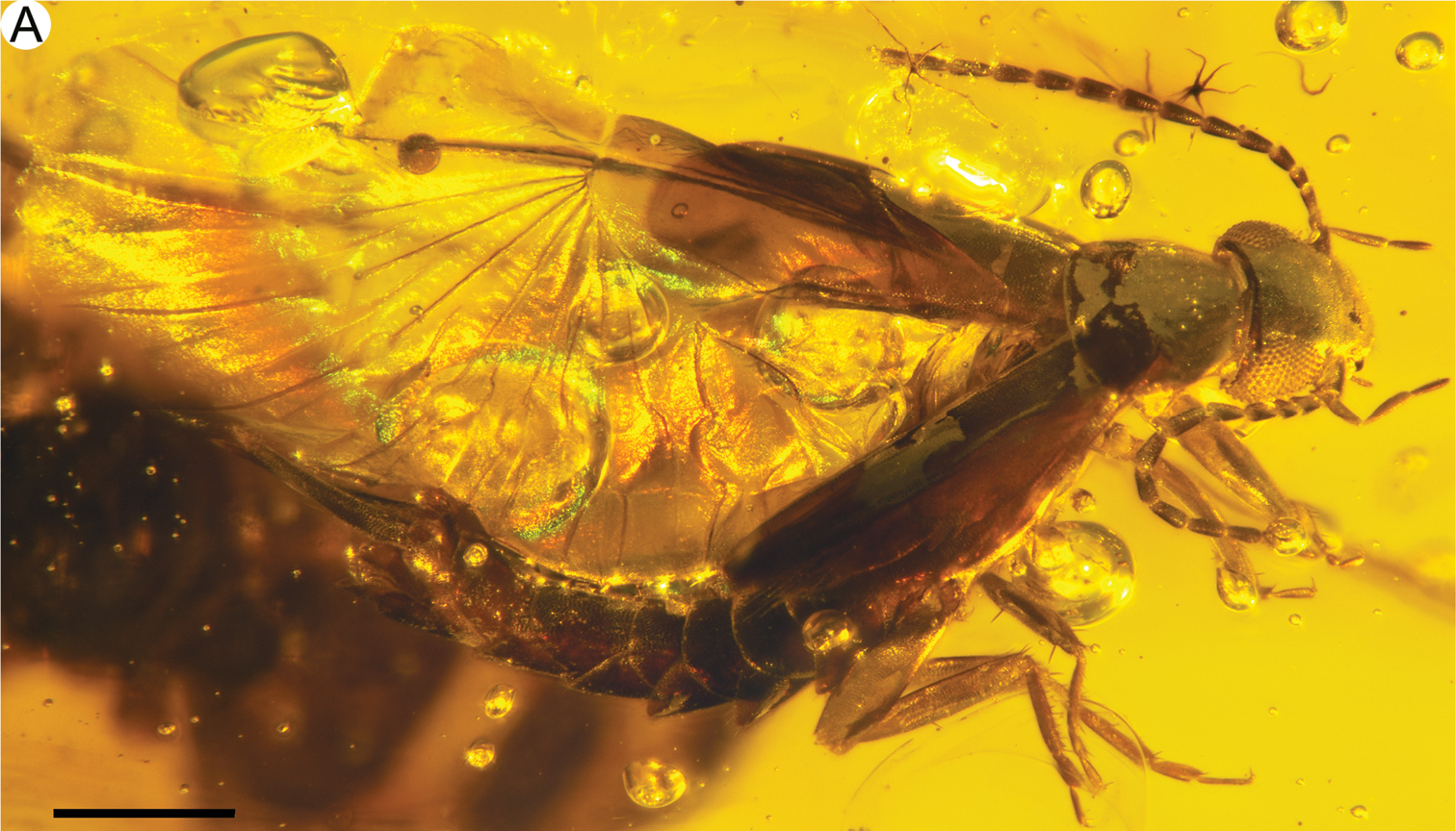 Earwing Astreptolabis laevis holotype, CNU-DER-MA2018001 A photo. Scale bars: 0.5 mm. Burmese amber, Hukawng Valley, earliest Cenomanian (99ma) Conserved at the College of Life Sciences, Capital Normal University, Beijing, China.